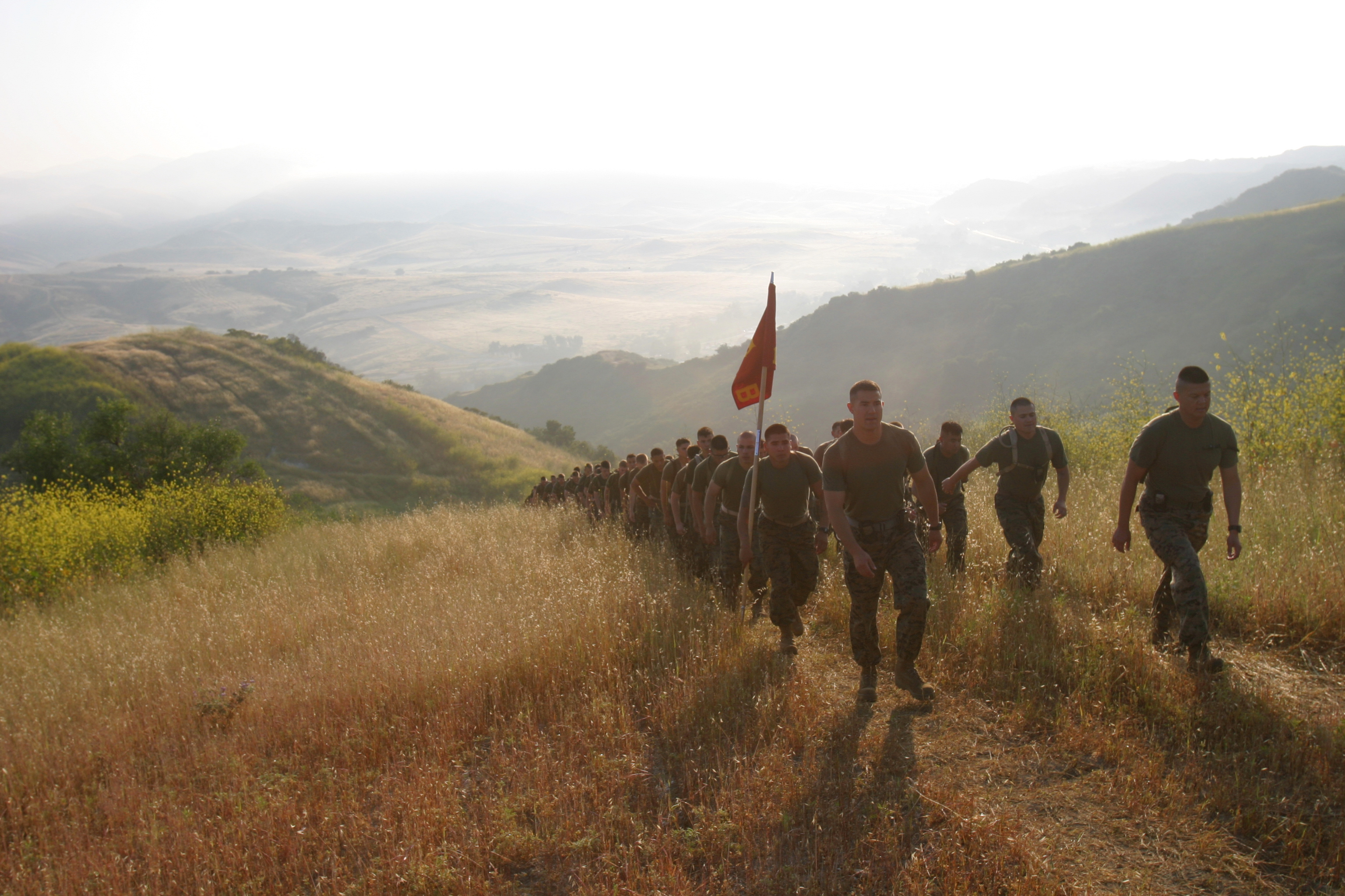 Marines from 1st Battalion, 4th Marine Regiment, hike their way to a memorial site set up just outside of Camp Horno, April 26. The site was made in memory of Marines from 1st Marine Regiment that died in support of Operation Iraqi Freedom and continues to be so for Marines from OIF II. Every Marine that hikes up the San Onofre Mountain to the memorial carries a white stone to place at the foot of the memorial. Many stones were covered with the names of the Marines that died.